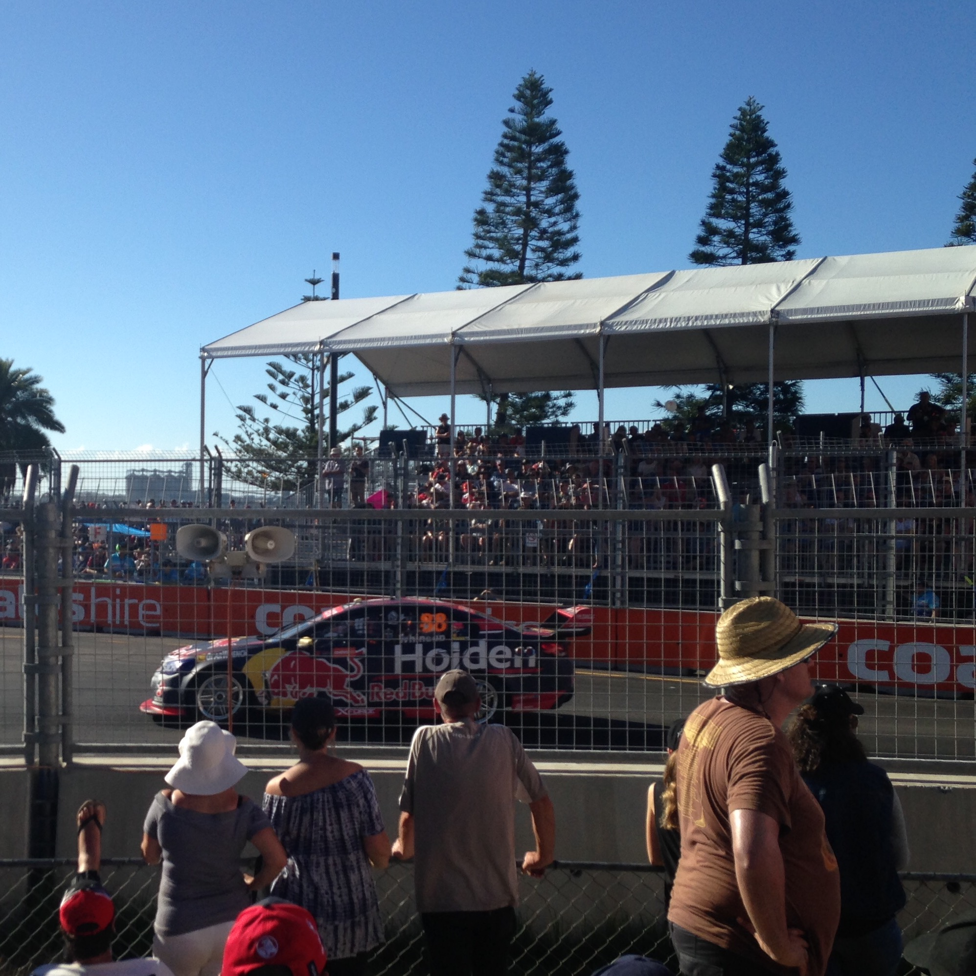 Jamie Whincup competing for Triple Eight Race Engineering in the 2017 Newcastle 500